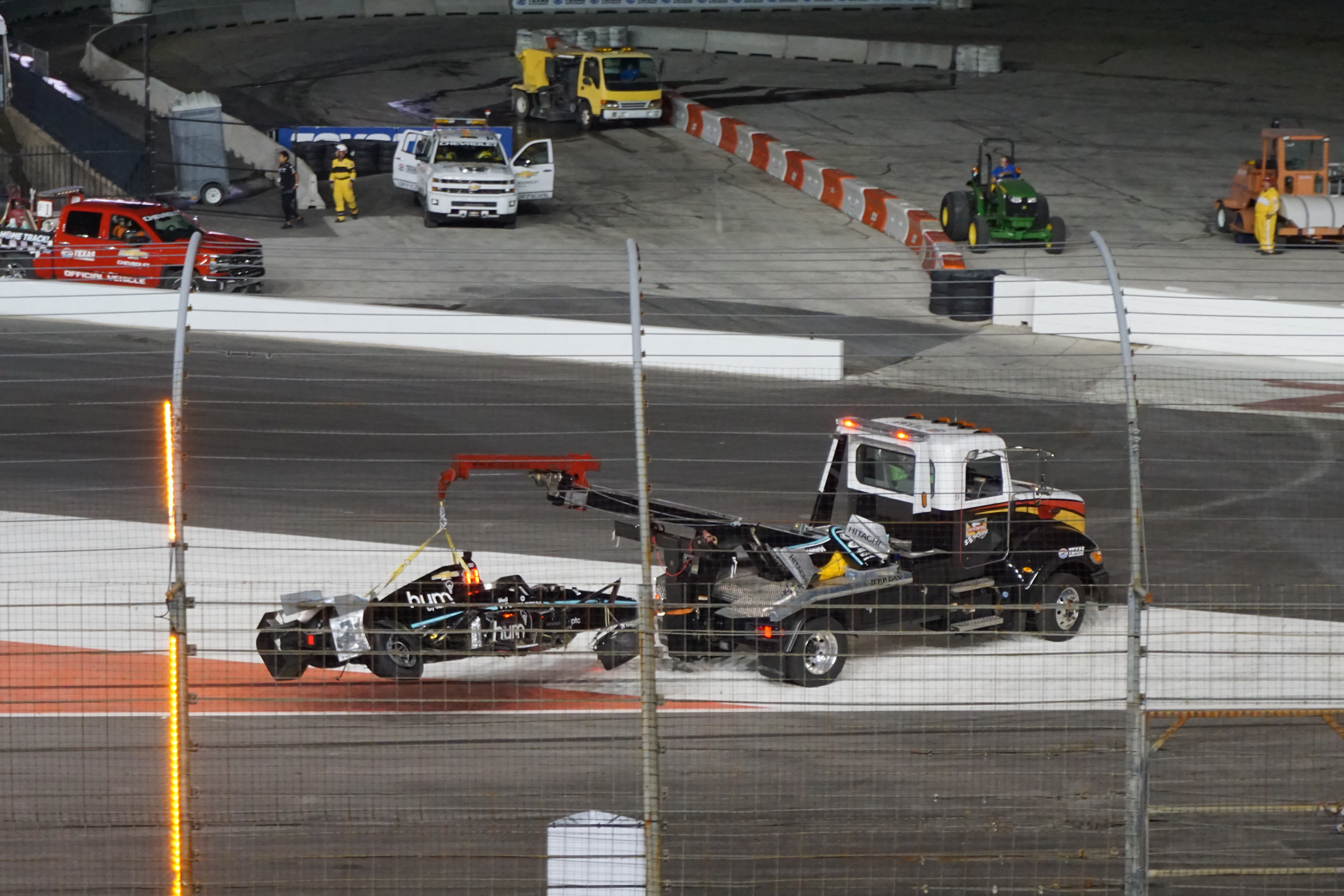 Josef Newgarden after crashing during the 2017 Rainguard Water Sealers 600 at Texas Motor Speedway in Fort Worth, Texas (United States).